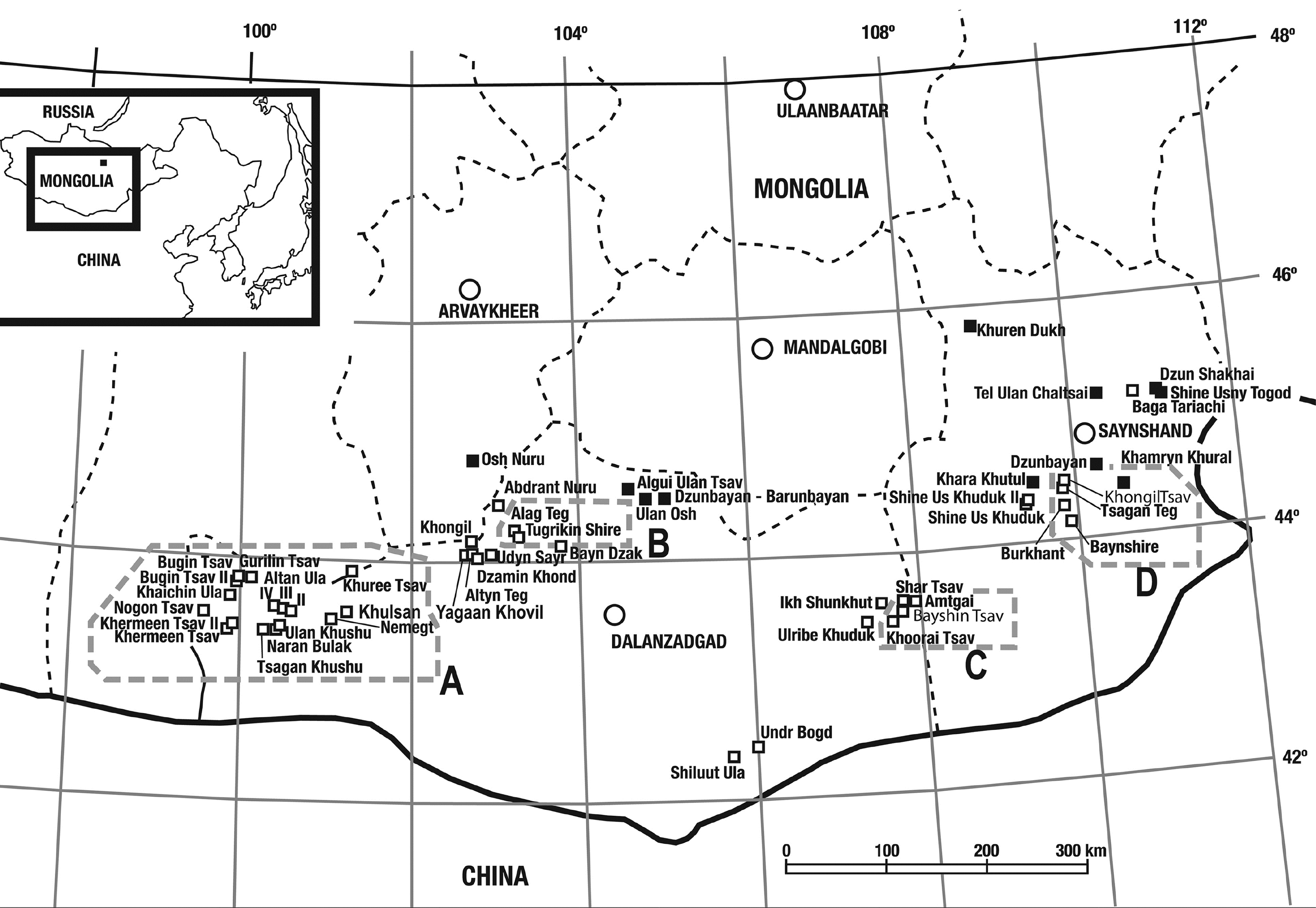 Map of Cretaceous-aged dinosaur fossil localities of Mongolia. Gobihadros mongoliensis was collected from Bayshin Tsav in Area C. Open squares indicate Late Cretaceous sites, solid squares represent Early Cretaceous localities. Abbreviations: A, Localities of Western Gobi Desert in Mongolia, mainly group of localities of Nemegtian age (early Maastrichtian), Late Cretaceous; B, Localities of Central Gobi Desert in Mongolia, mainly Djadokhtian age (Campanian), Late Cretaceous; C & D- Localities of Eastern Gobi Desert in Mongolia, mainly Baynshirenian age (Cenomanian-Santonian), Late Cretaceous. Figure has been modified from Tsogtbaatar et al. 2014, Figure 1 [24].